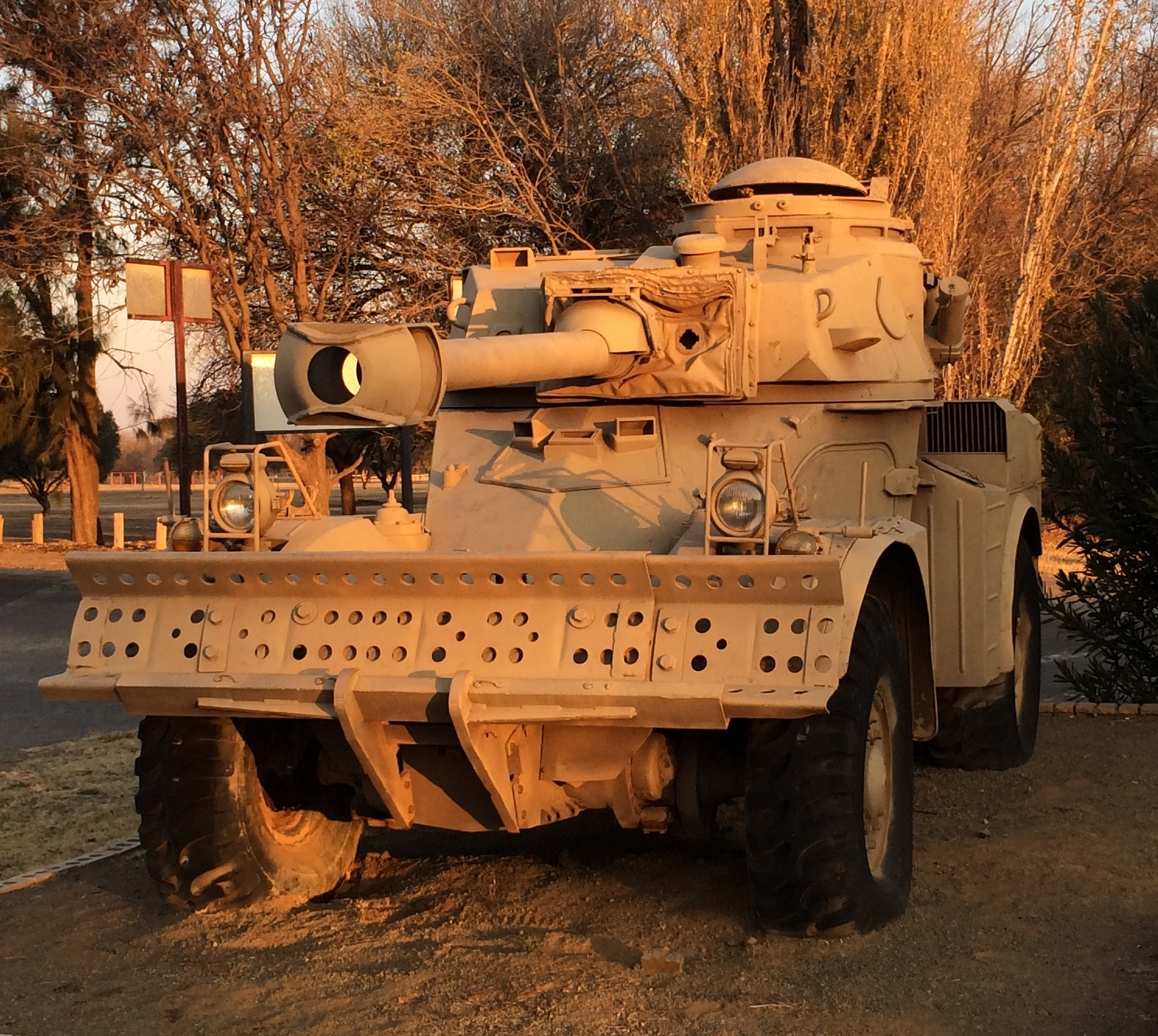 Description: Armoured car with disabled 90mm gun at 1 Tank Regiment, Tempe Base, Bloemfontein. Subject is an Eland-90 Mk7, by Armscor of South Africa. The vehicle in question is no longer operational and is now being used as an on-base marker at Tempe.